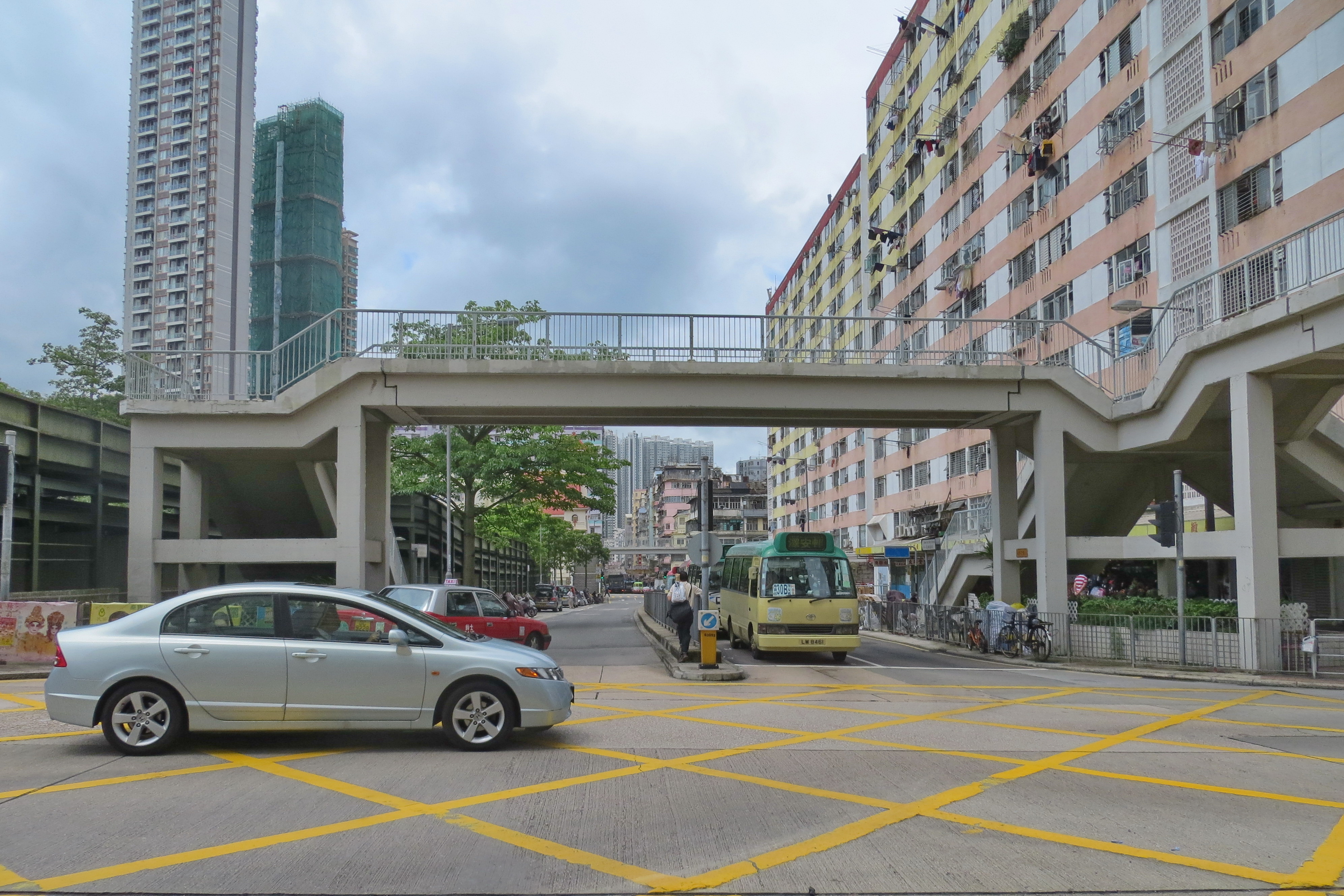 Shek Kip Mei Street, at the northern end intersecting Woh Chai Street, Kowloon, Hong Kong.